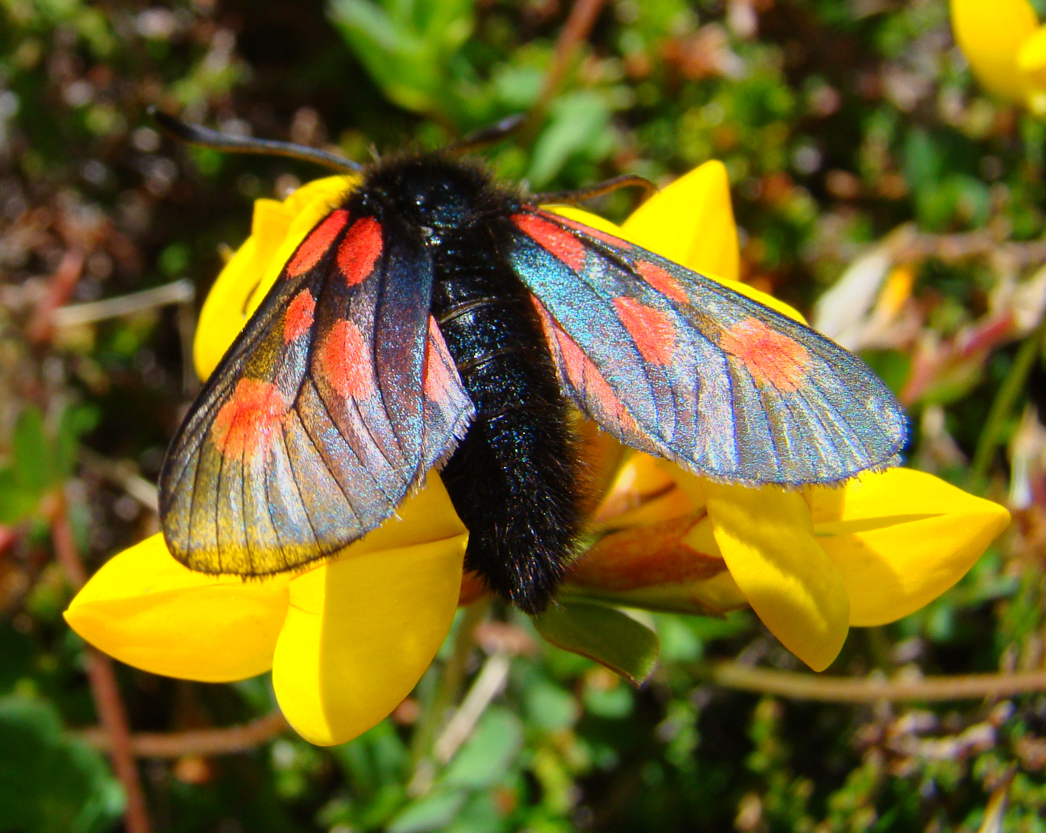 A mountain burnet (Zygaena exulans) feasting on a bird's-foot trefoil (Lotus corniculatus) in Northern Norway.